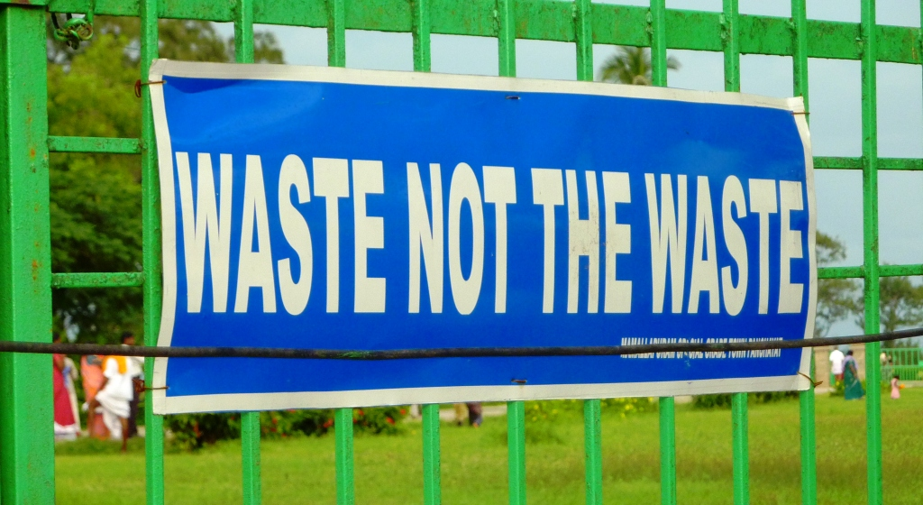 I took this photo on a trip to India last year.